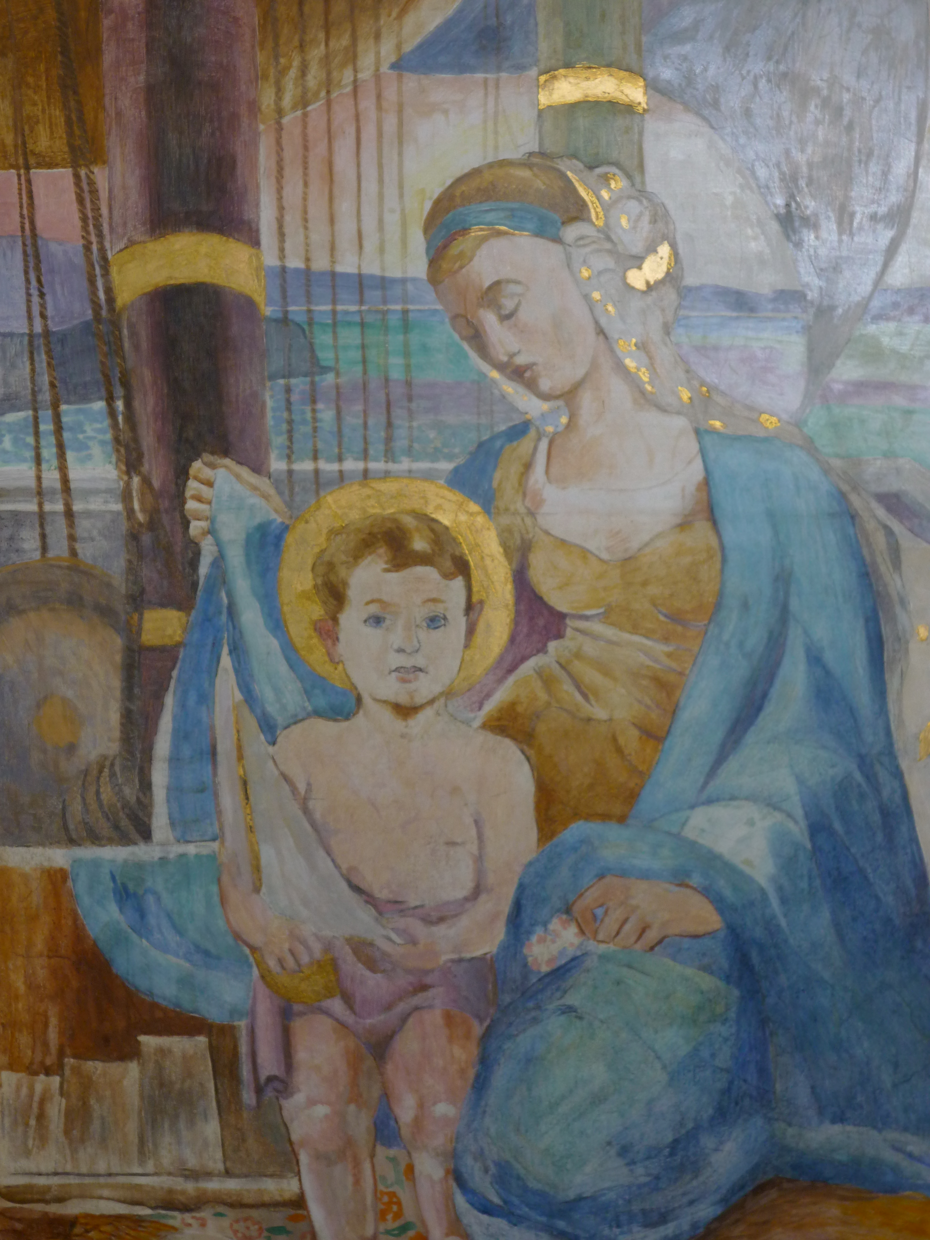 St James Church, Sydney - Mural detail in Children's Chapel